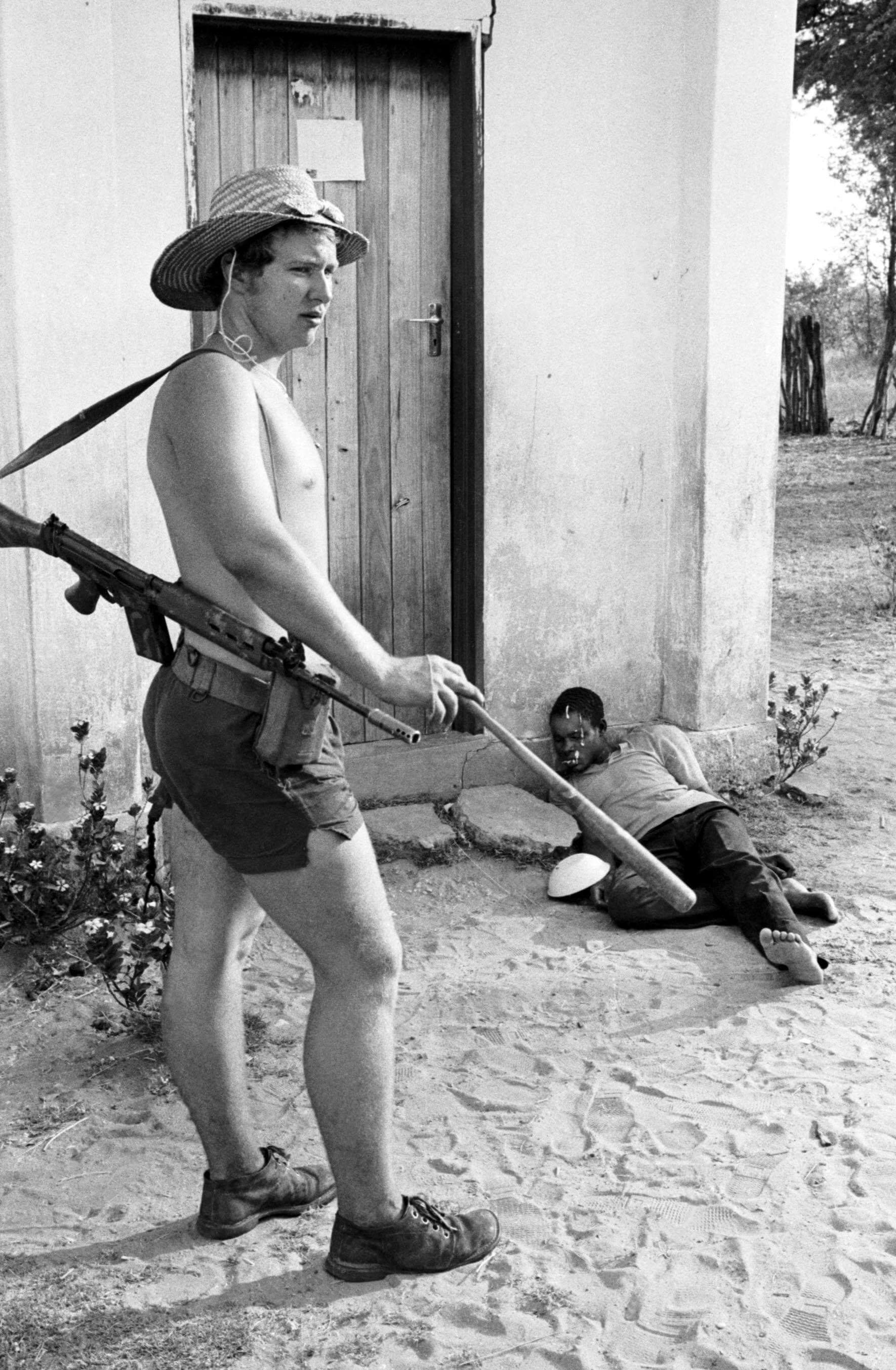 Lt. Graham Baillie of the Rhodesian Security Forces swings a bat in front of a beaten prisoner, Moffat Ncube, in September 1977. Taken for Associated Press by J. Ross Baughman. Third of a set of three photos that were awarded the 1978 Pulitzer Prize for Feature Photography.